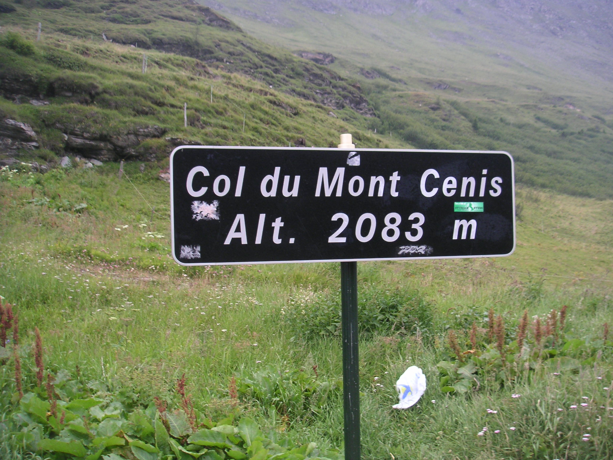 Image of the sign marking the Mount Cenis Pass